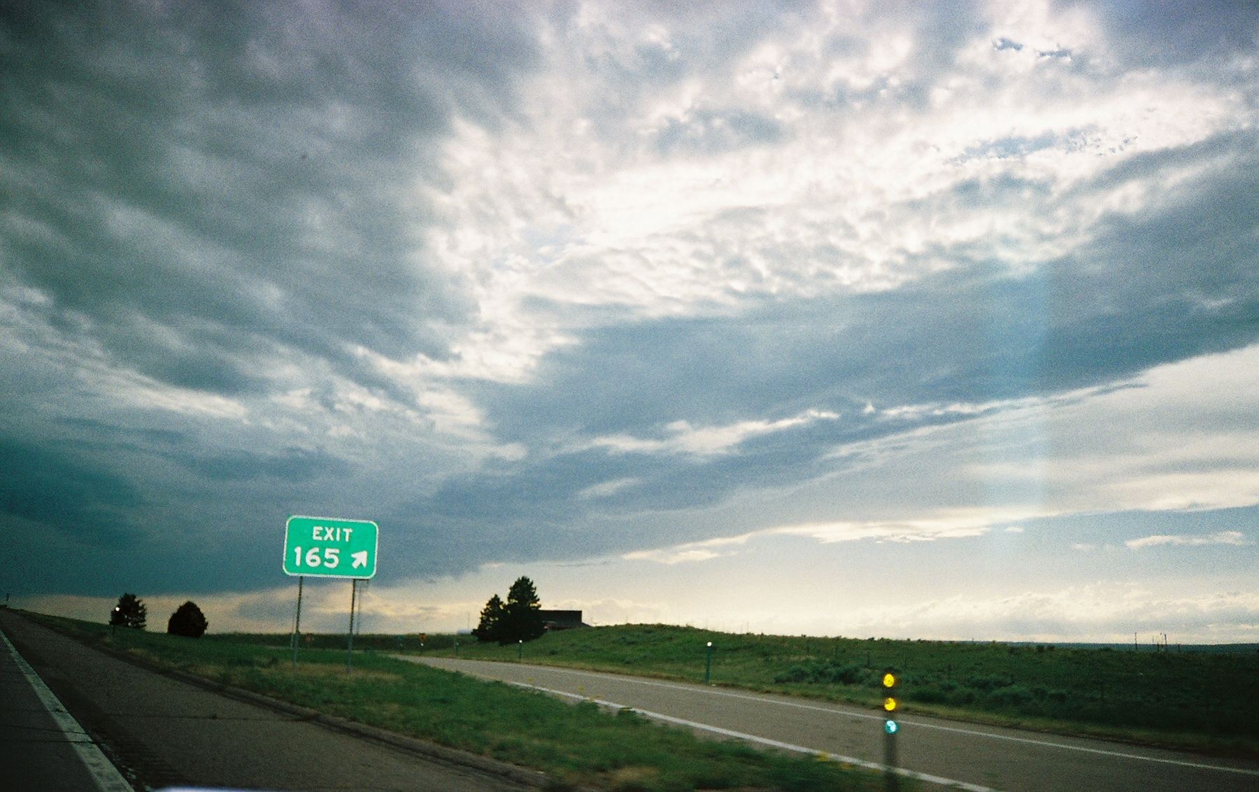 Interstate 76 westbound at Exit 165 in Sedgwick County, Colorado.